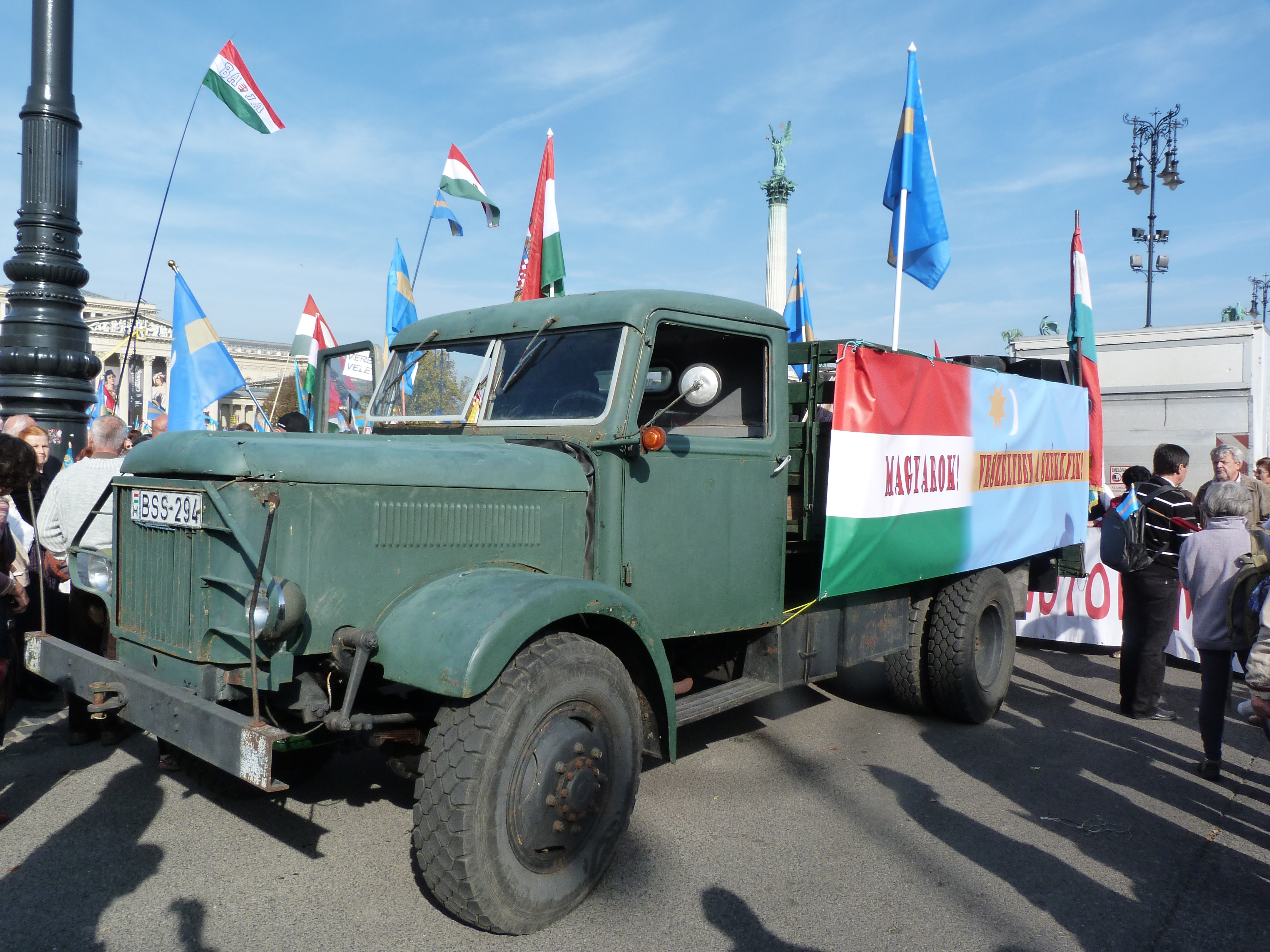 Székely (pronounced [ˈseːkɛj]) Land or Szeklerland (Hungarian: Székelyföld; Romanian: Ţinutul Secuiesc